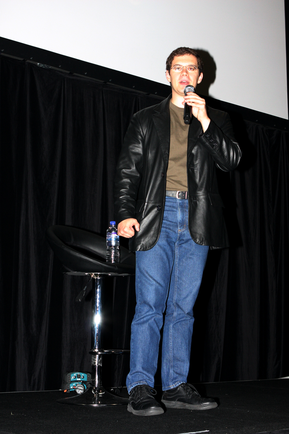 Christopher Paolini